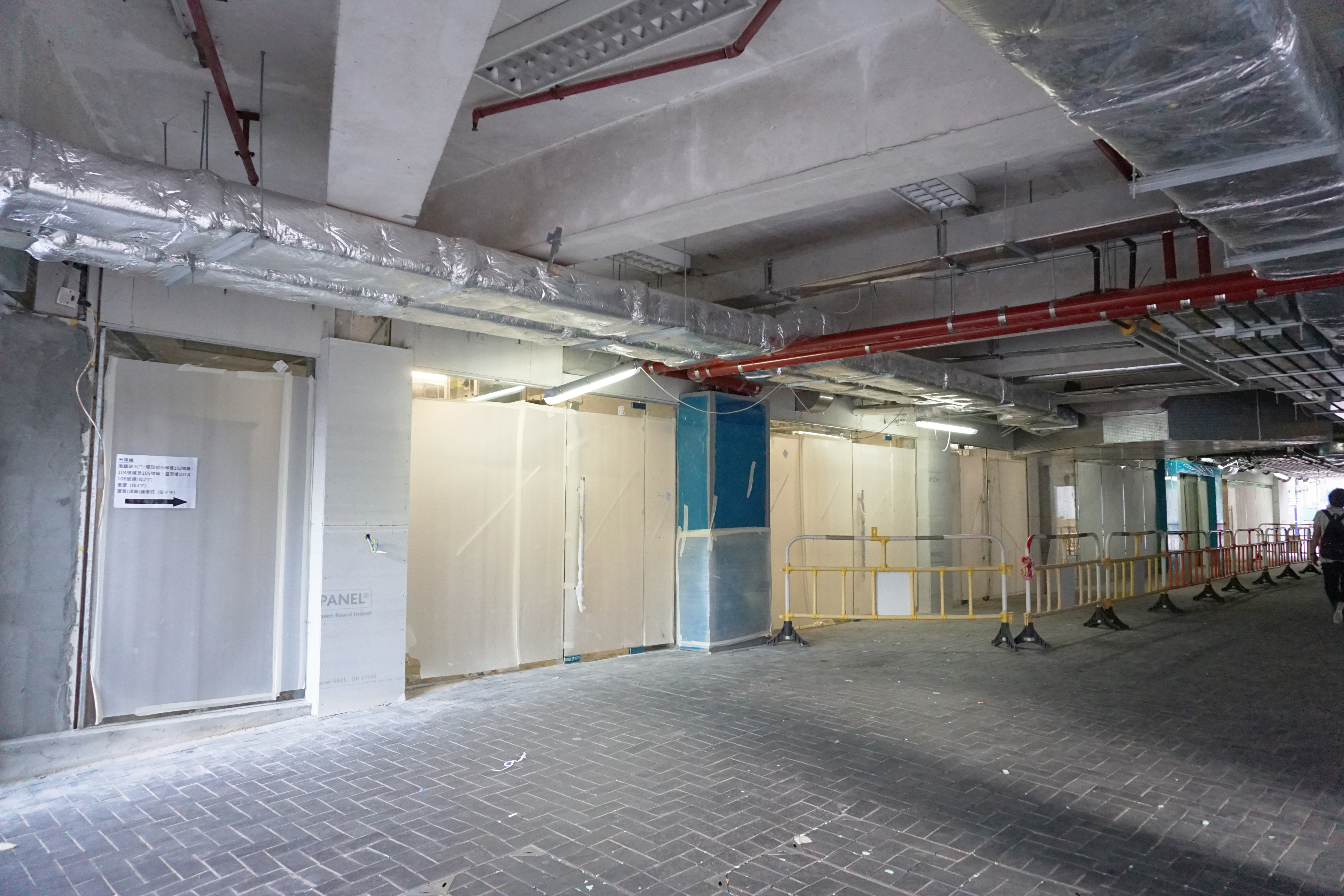 Wan Tsui Shopping Centre in Chai Wan, Hong Kong.